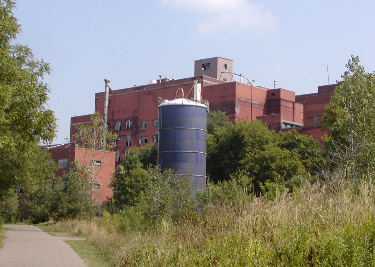 Hamm's Brewery as seen from Swede Hollow, Saint Paul, Minnesota